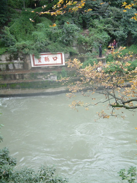 Baopingkou, Dujiangyan, China